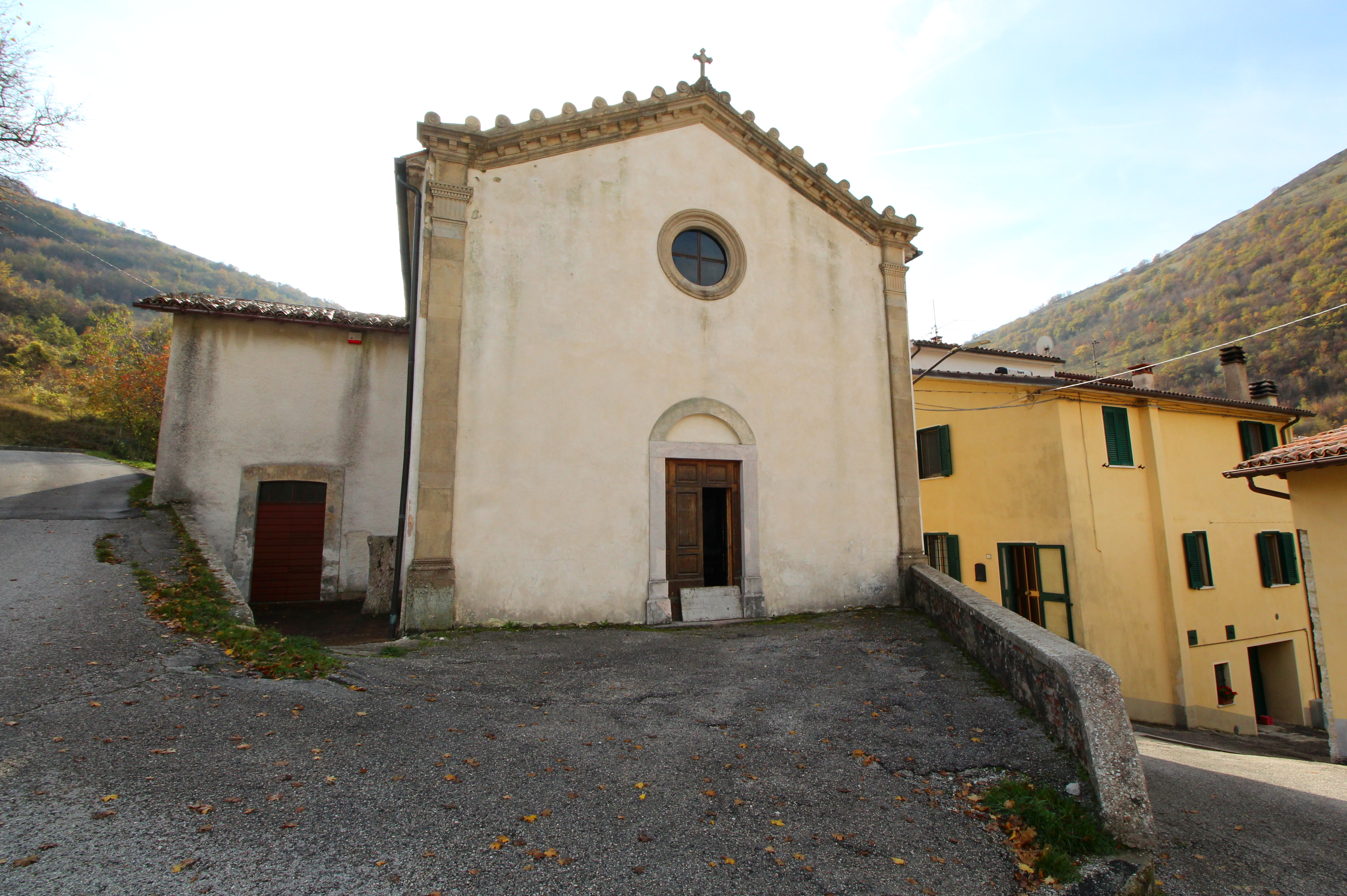 church Santa Maria Assunta, Campitello, hamlet of Scheggia e Pascelupo, Province of Perugia, Umbria, Italy